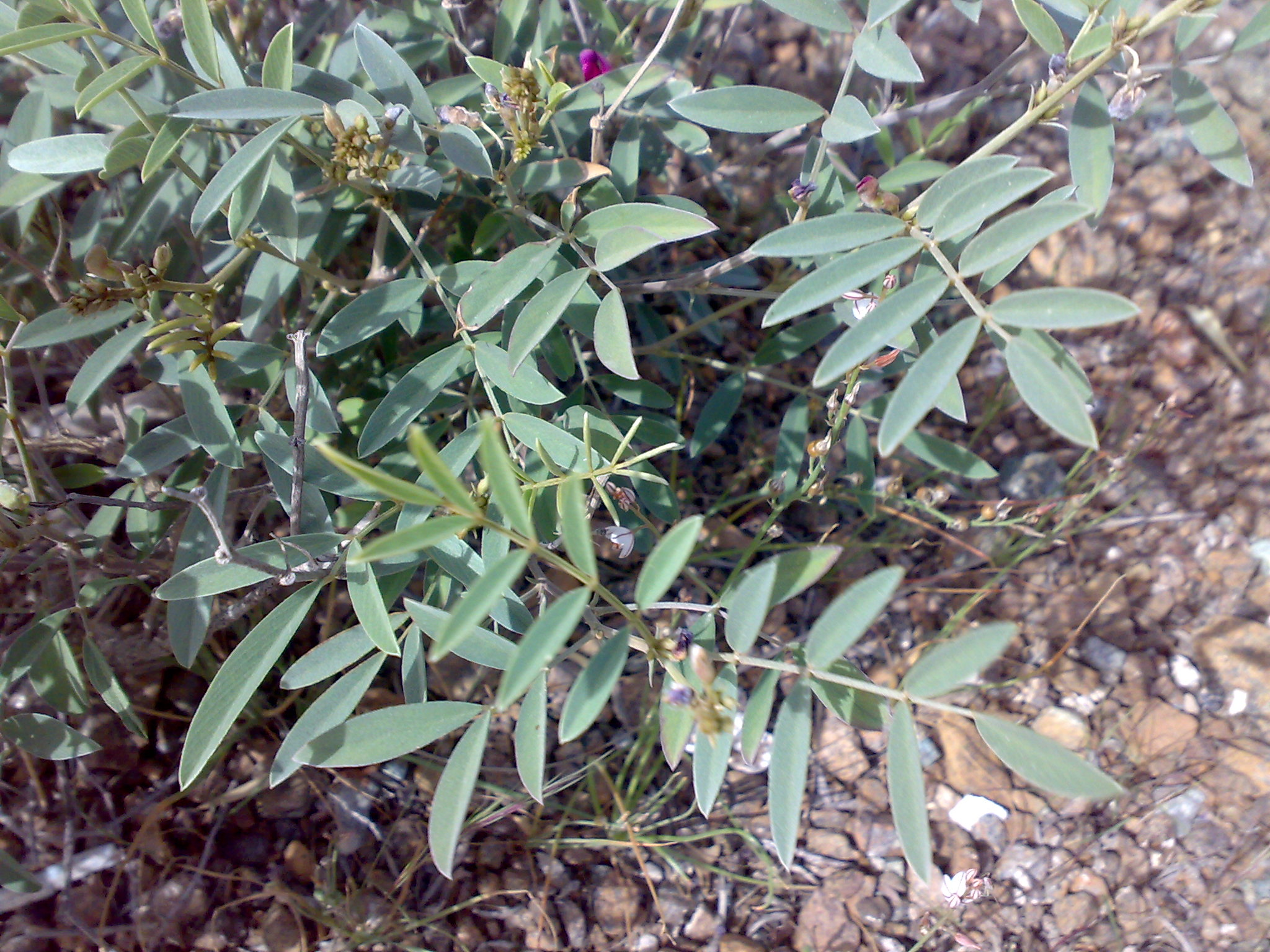 Tephrosia apollinea in the semi-desert north of Fujeirah City, Indian Ocean coast, United Arab Emirates.